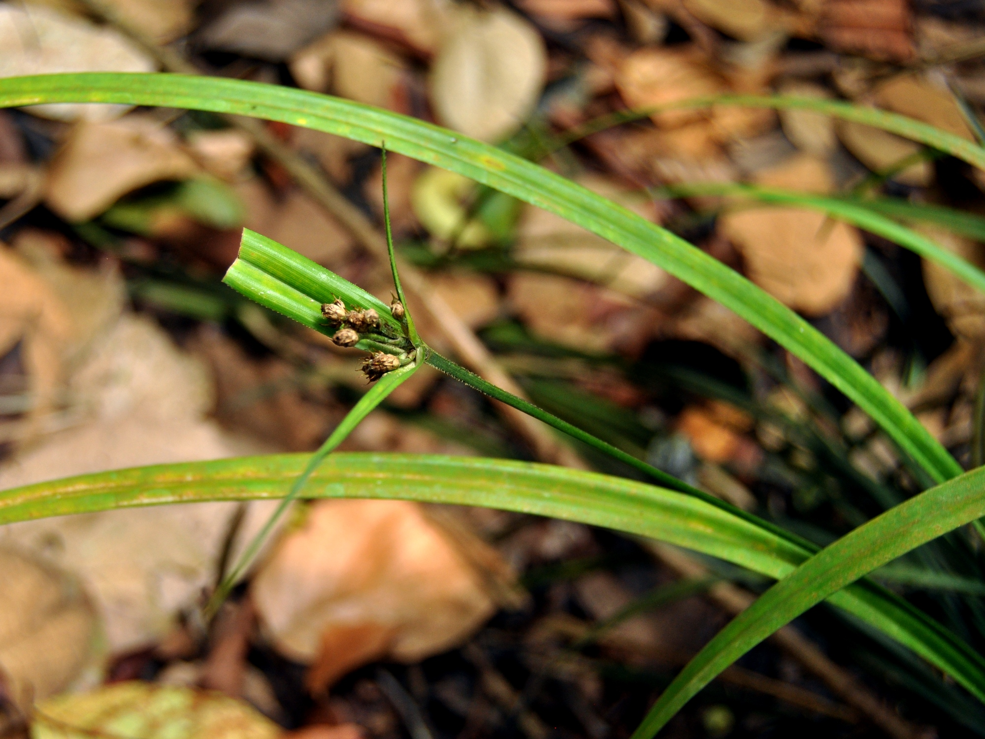 Hypolytrum nemorum, infructescens. From Rokan Hilir, Riau, Indonesia.